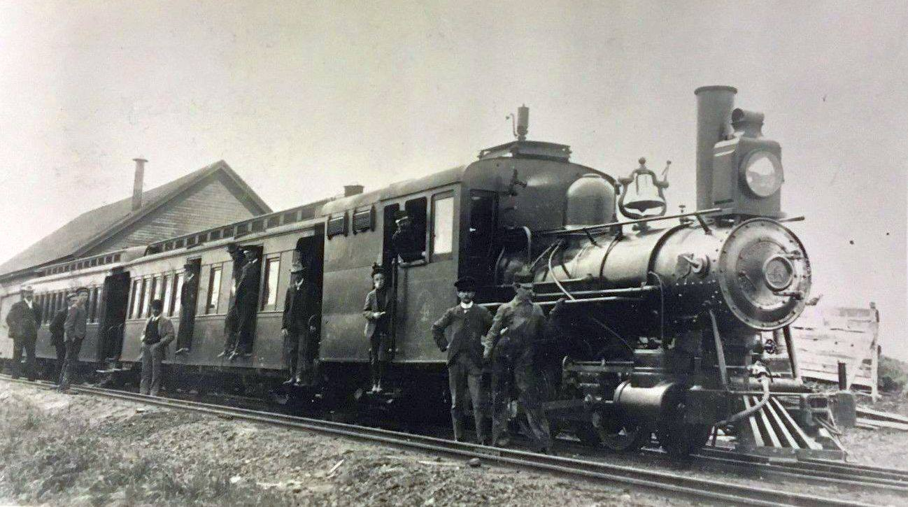 Wiscasset, Waterville and Farmington's 2-foot gauge No. 4 built by H.K. Porter., circa 1905 (01)